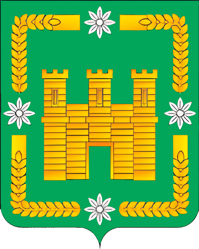 Coat of arms of Arsk (Tatarstan), 2006